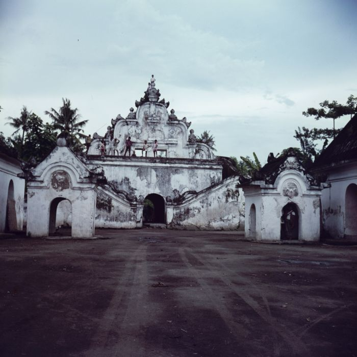 Taman Sari, the water castle of the sultan